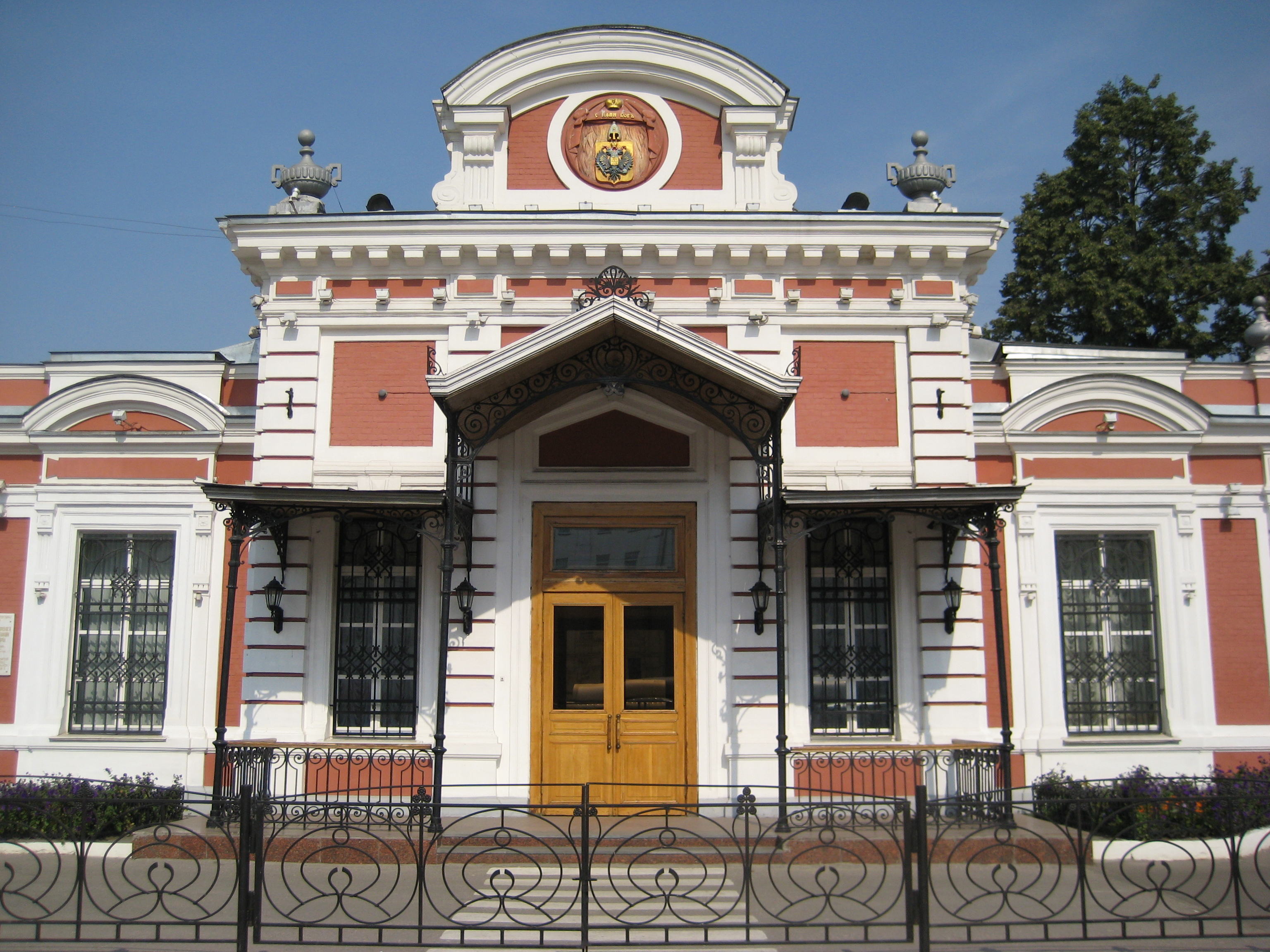 The VIP Hall (originally, the Royal Family Hall; later, Members of Supreme Soviet Hall) at Moscow Station, the main train station in Nizhny Novgorod